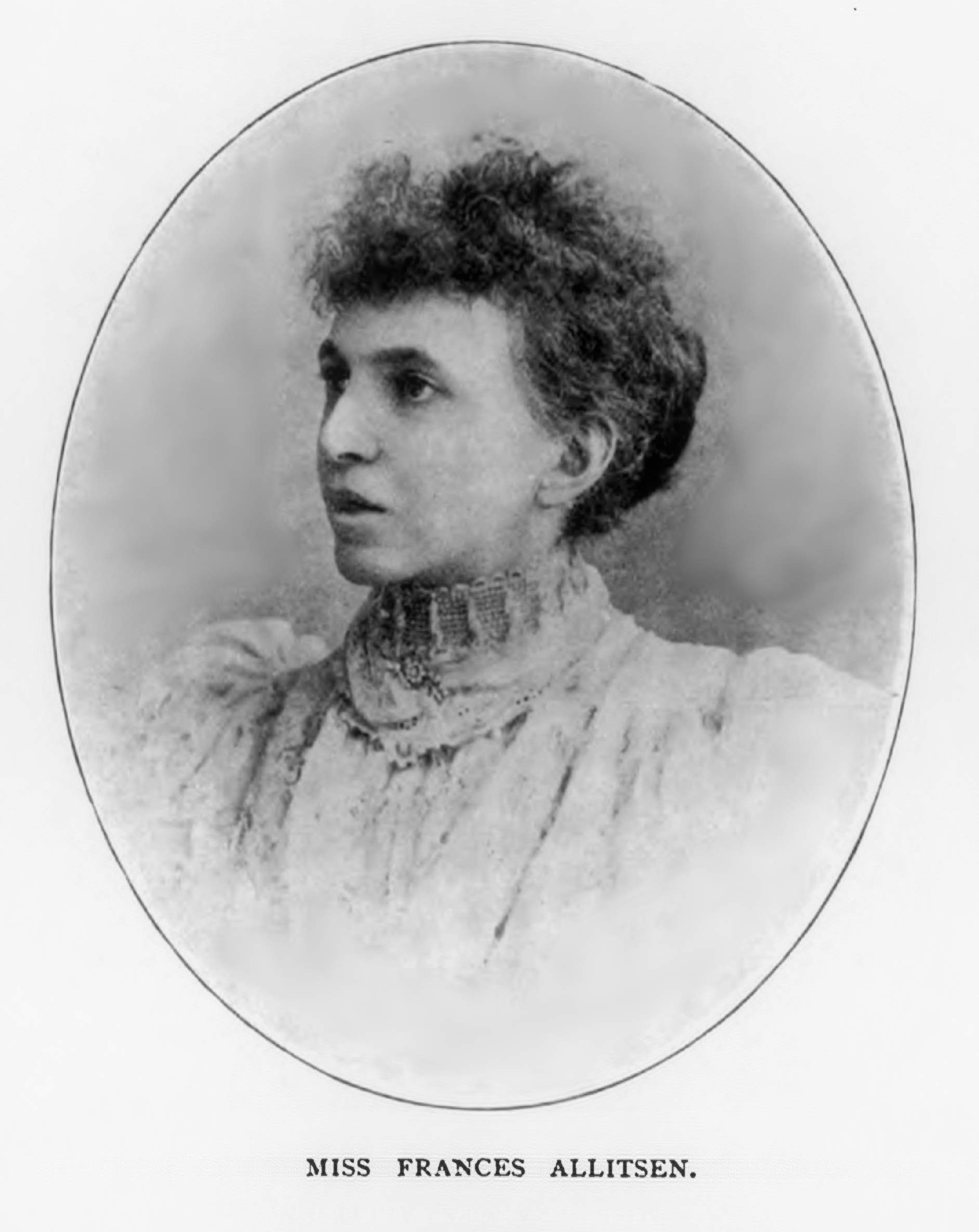 Mary Frances Allitsen (30 December 1848 – 1 October 1912) was an English composer. From a photograph by Thomas Fall